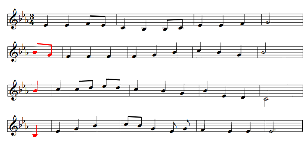 The hymn tune Slane, used for "Lord of all Hopefulness" and some settings of "Be Thou my Vision", based on an Irish traditional melody. This version is to the metre 10.11.11.11, with the 2nd, 3rd and 4th lines of each verse beginning on an anacrusis, or upbeat (highlighted in red). By contrast, the original version of the tune begins each line on the first beat of the bar, requiring a different word setting to the metre 10.10.10.10.